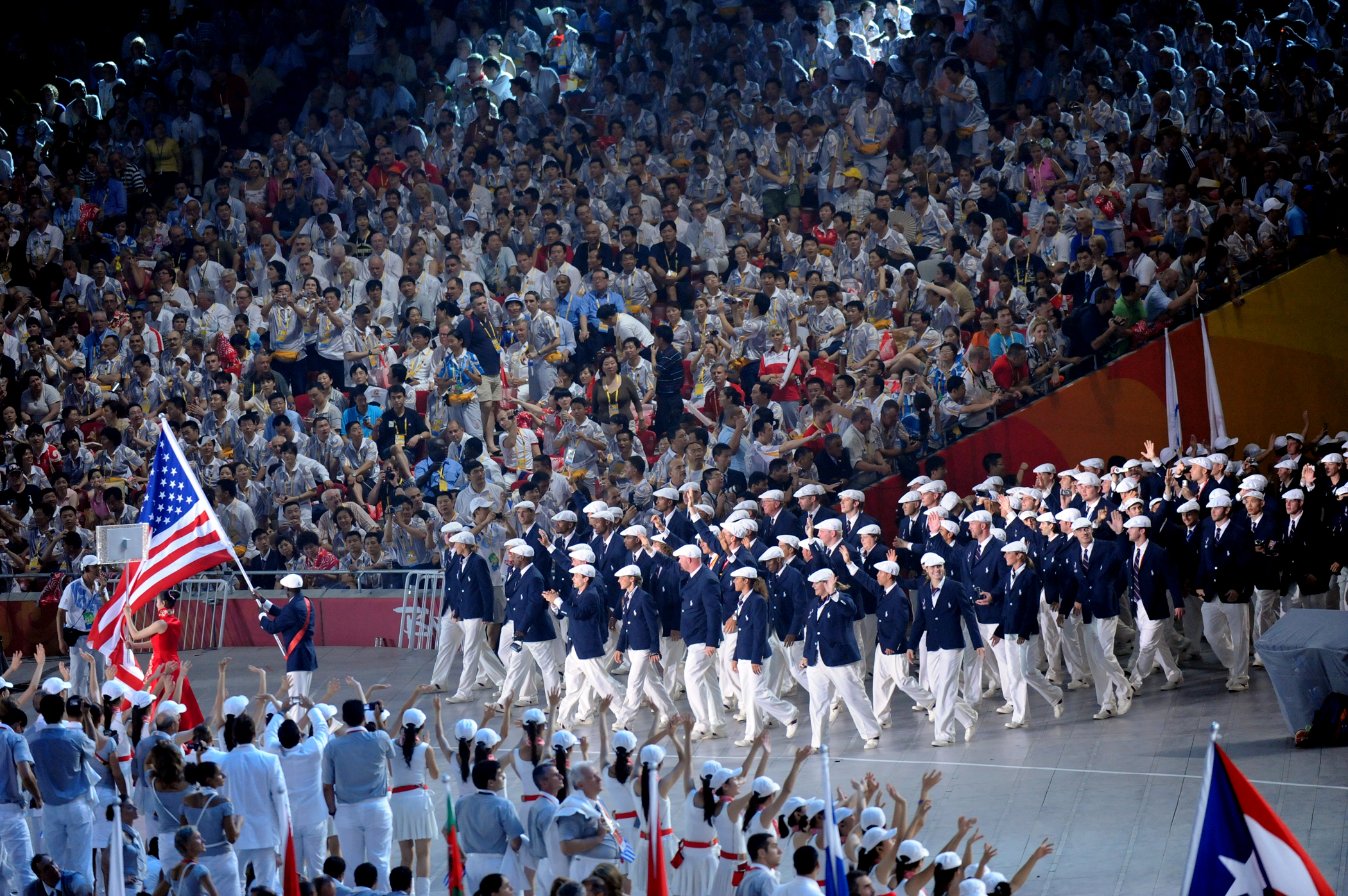 The march of nations featured Olympic athletes from 205 countries, led into the stadium by Greece, in accordance with tradition. The host team from China concluded the march of nations. As members of Team USA entered, they clearly received the loudest ovation of the evening -- until Houston Rockets basketball star Yao Ming led the Chinese contingent into the stadium. The throng representing 596 U.S. athletes occupied more than 100 meters of the running track during the parade of nations in the Olympic Opening Ceremony in Beijing, August 8th, 2008. As U.S. flag bearer Lopez Lomong was rounding the turn, members of Team USA were still filing into the arena from the opposite end of the stadium.